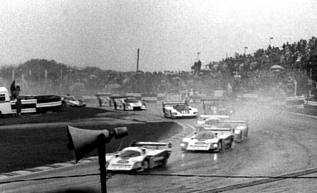 Group C race in the rain, Brands Hatch, 1987. Paddock Hill Bend. Compare with the similar modern view 267651 - this famous corner has changed very little.